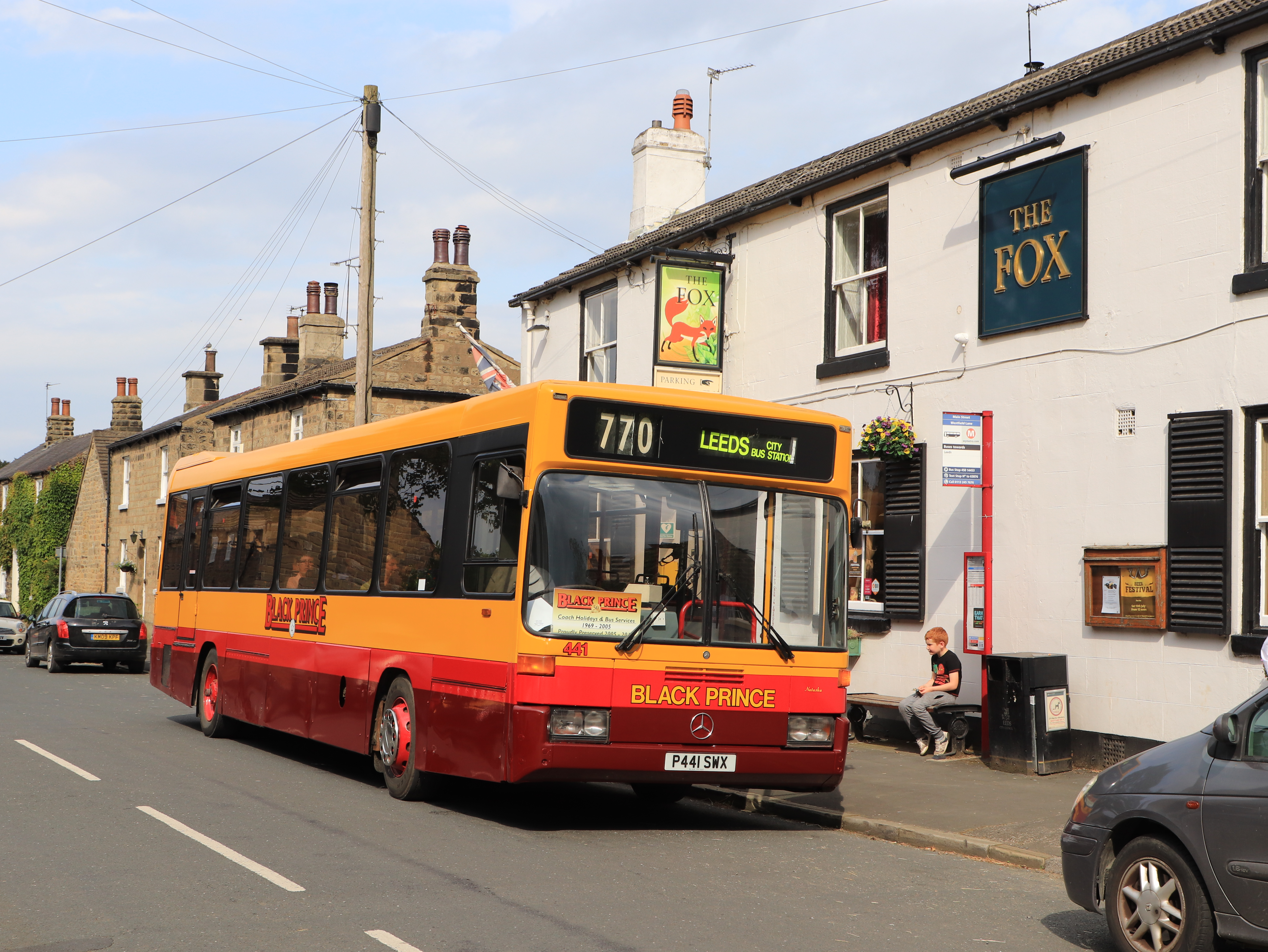 Black Prince's P441 SWX, A Optare Prisma bodied Mercedes O405. In Thorner, West Yorkshire